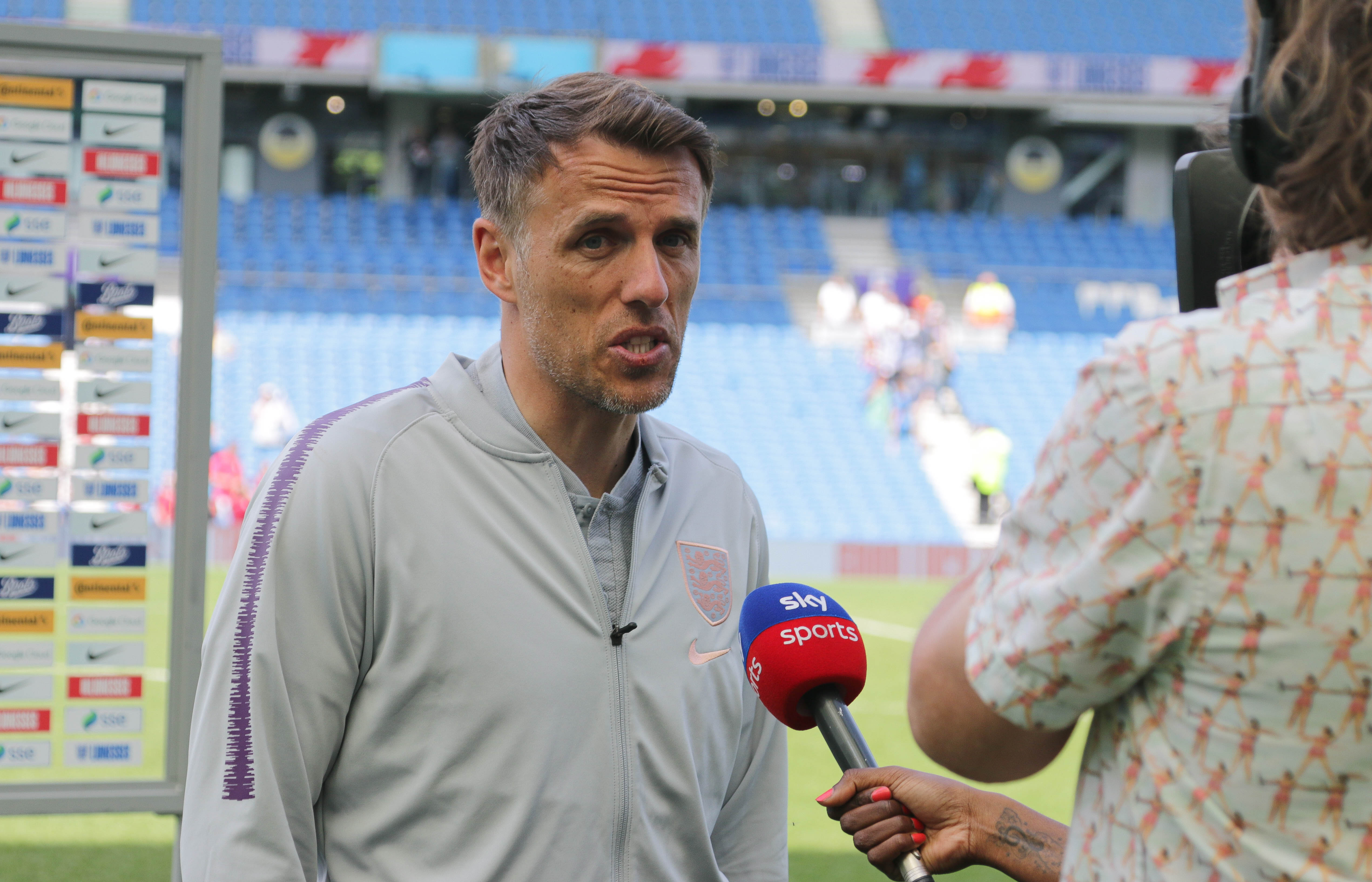 England Women 0 New Zealand Women 1 01 06 2019-1351.jpg